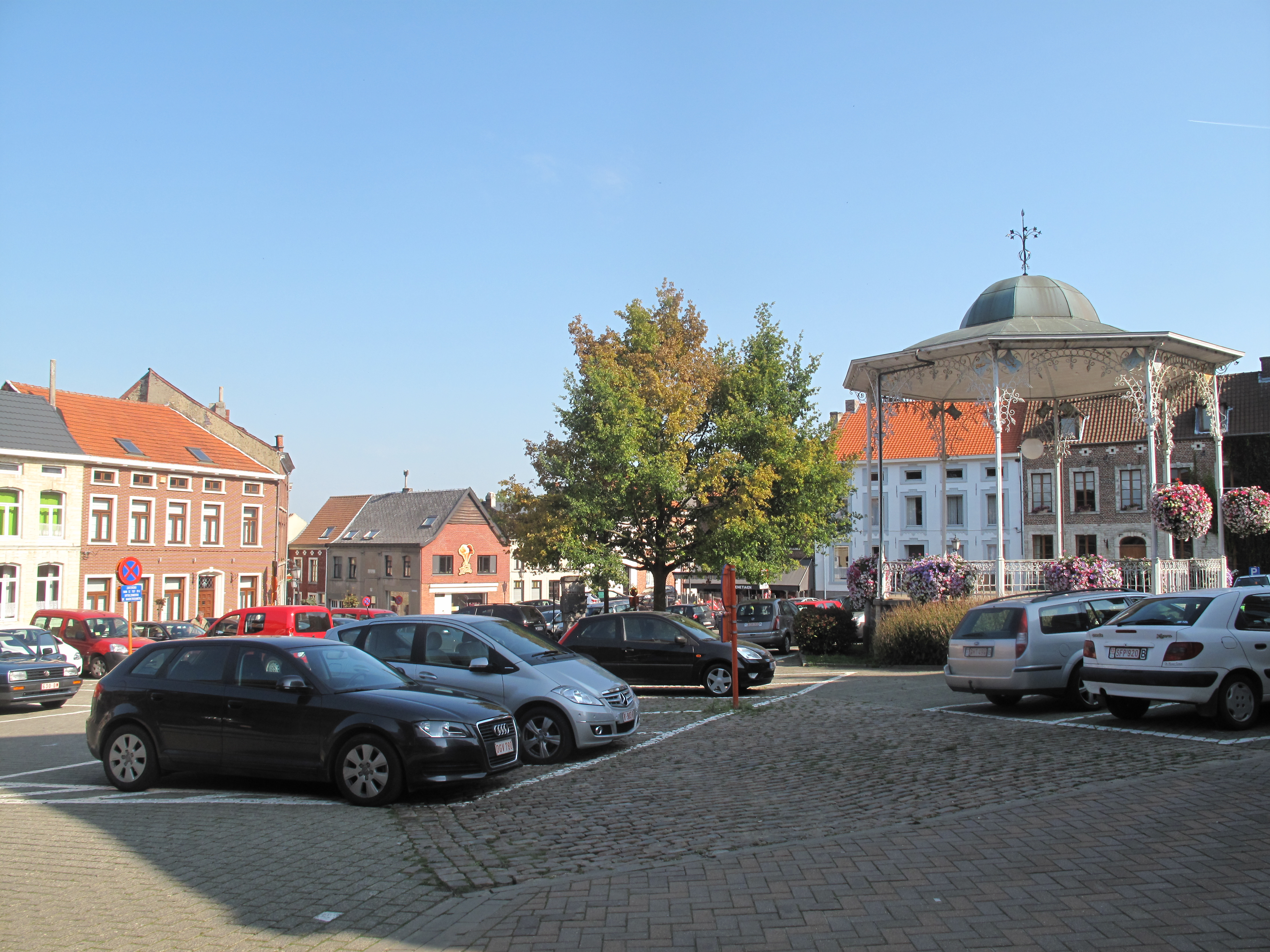 Hoegaarden, central square